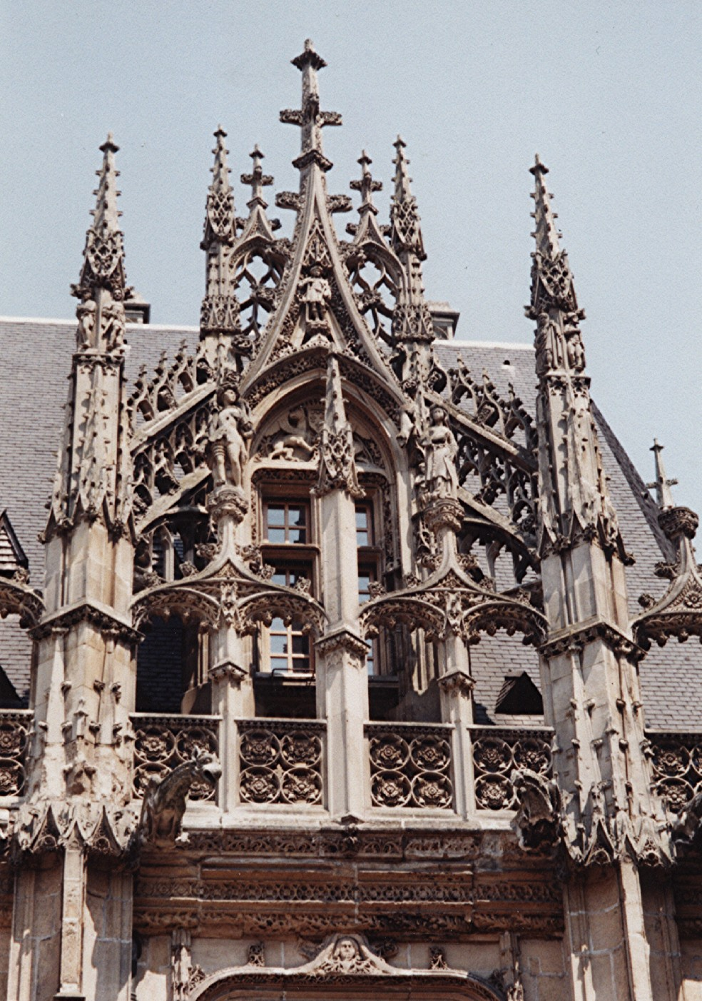 Law Courts, Rouen, detail